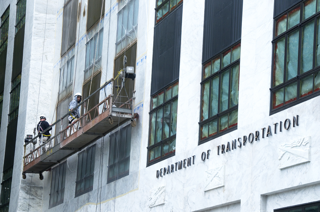 Workers freshen the metal panels on the west side of the Transportation Building.